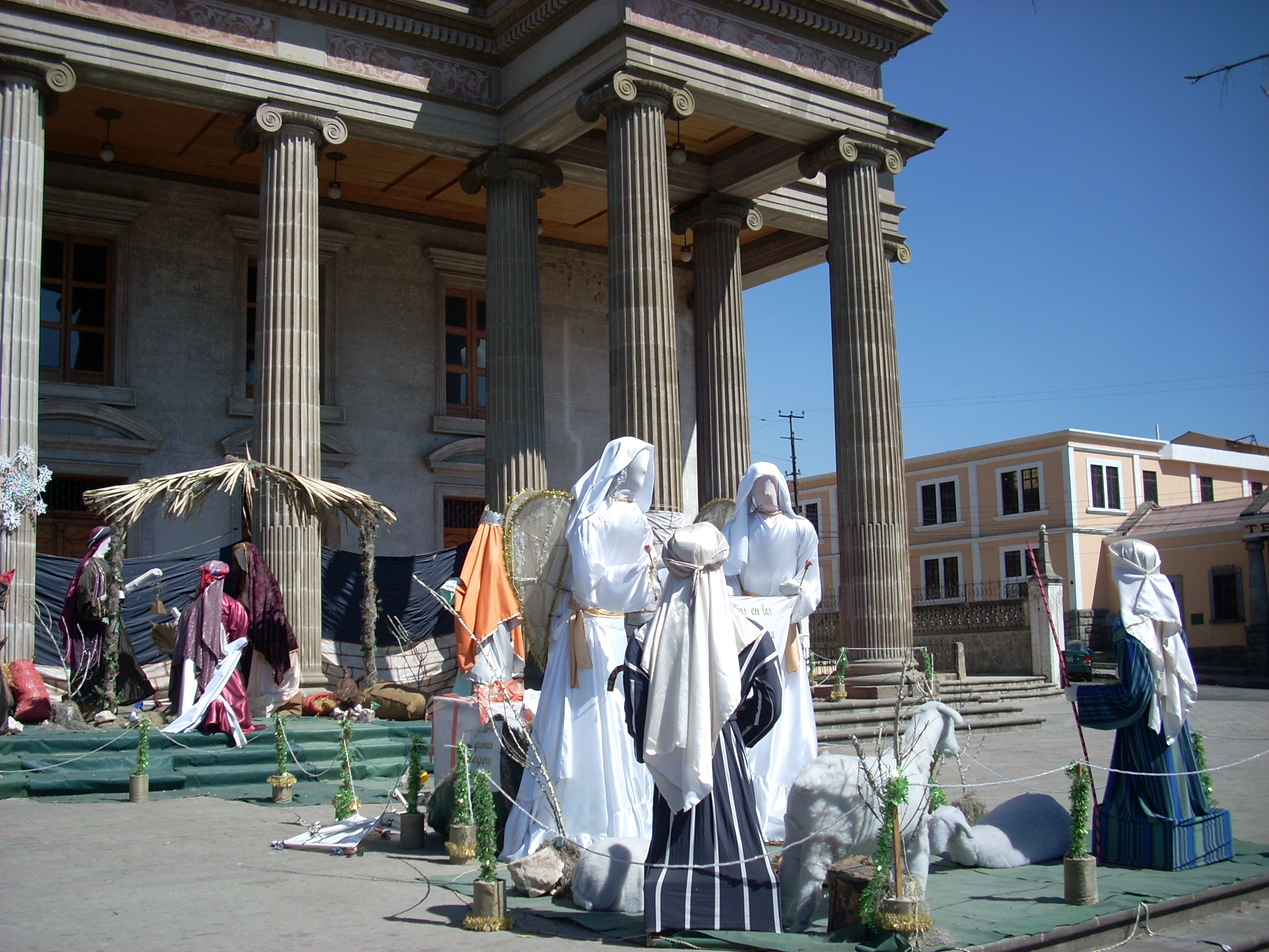 Nativity scene in front of the Municipal Theatre in Quetzaltenango, Guatemala. Christmas 2008.